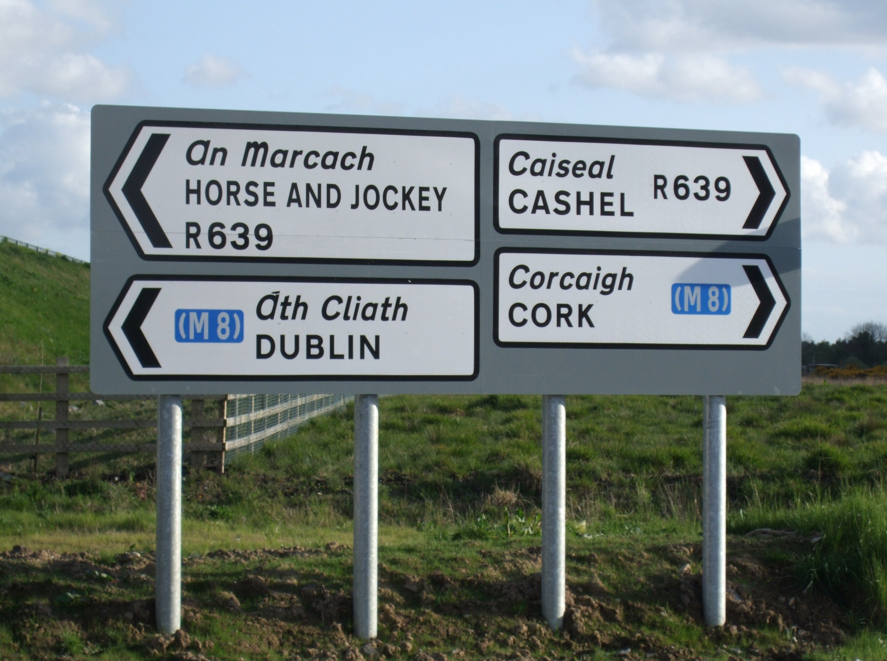 Signage on the R639 (former N8)